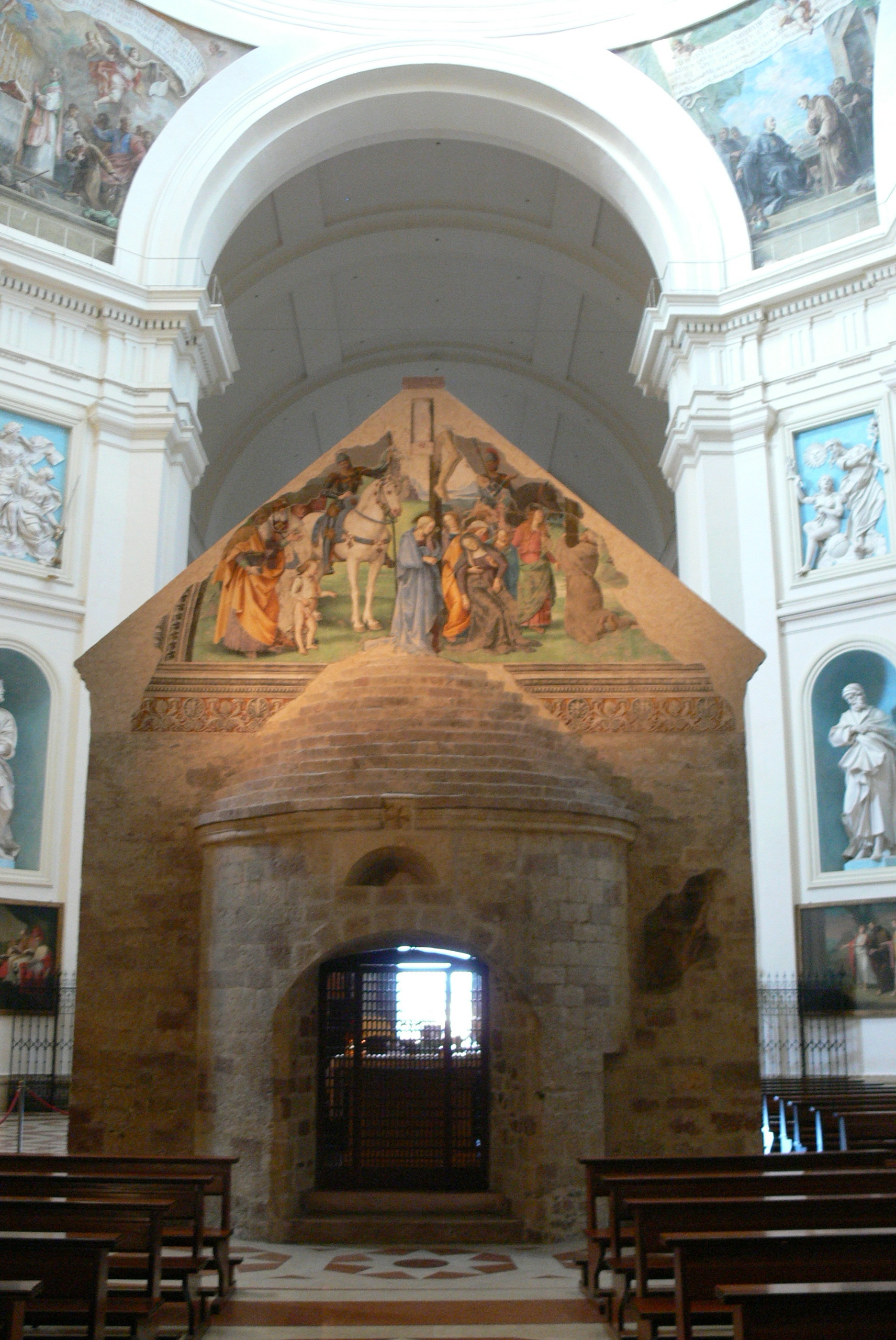 Assisi ( Italy ). Santa Maria degli Angeli: Portiuncola chapel - rear side.